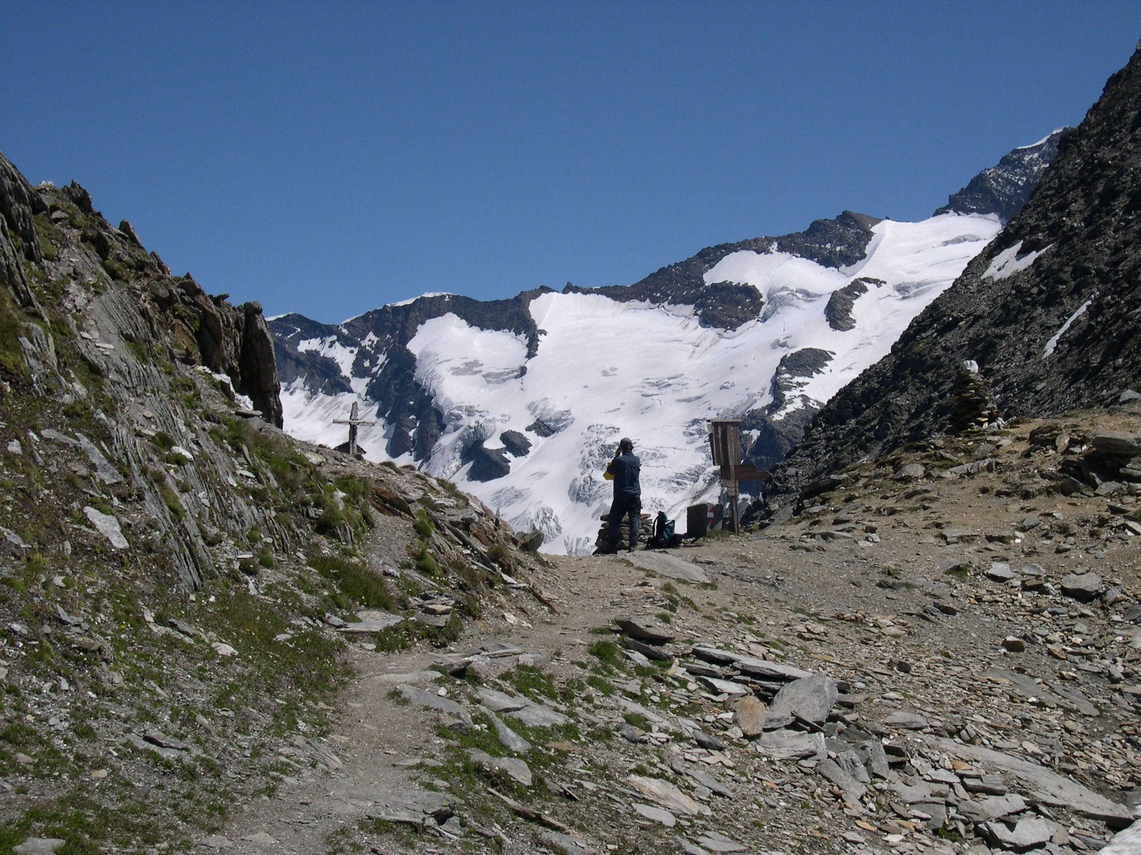 Birnlücke with Krimmler Kees